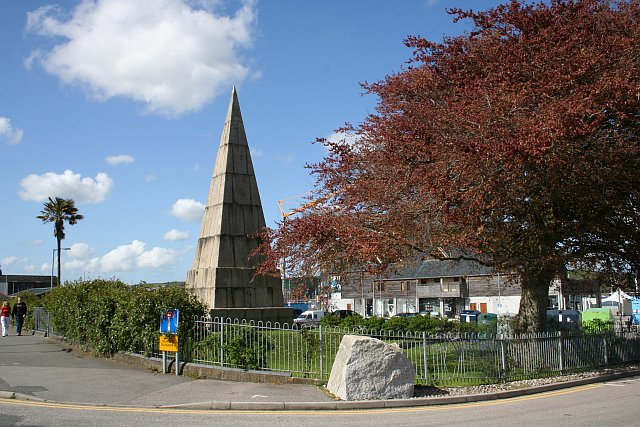 The Killigrew Monument. This pyramid is assumed to be a monument to the Killigrew Family, although there is not direct evidence that it was intended to be so. The plaque by the monument which details the history of the monument and the Killigrew family makes for some very entertaining reading. It tells of Killigrews who indulged in piracy, theft, murder and infidelity - and the husbands were even worse! Not to be missed.